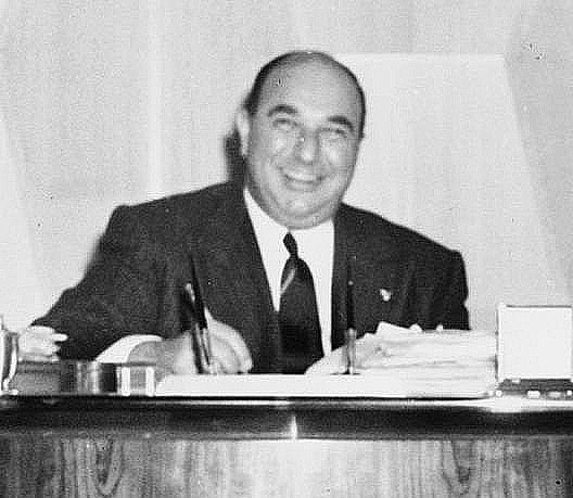 William Zeckendorf sits behind desk in his "cylindrical office" in New York City / World-Telegram photo by Dick DeMarsico.